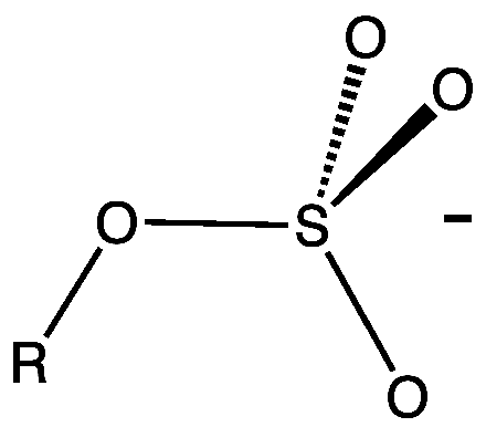 structure of monoalkyl sulfate